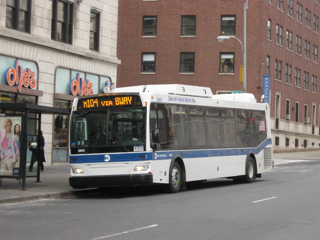 NYC Transit Orion VII Next Generation hybrid #3800 operates on the M104 in the vicinity of Columbia University.